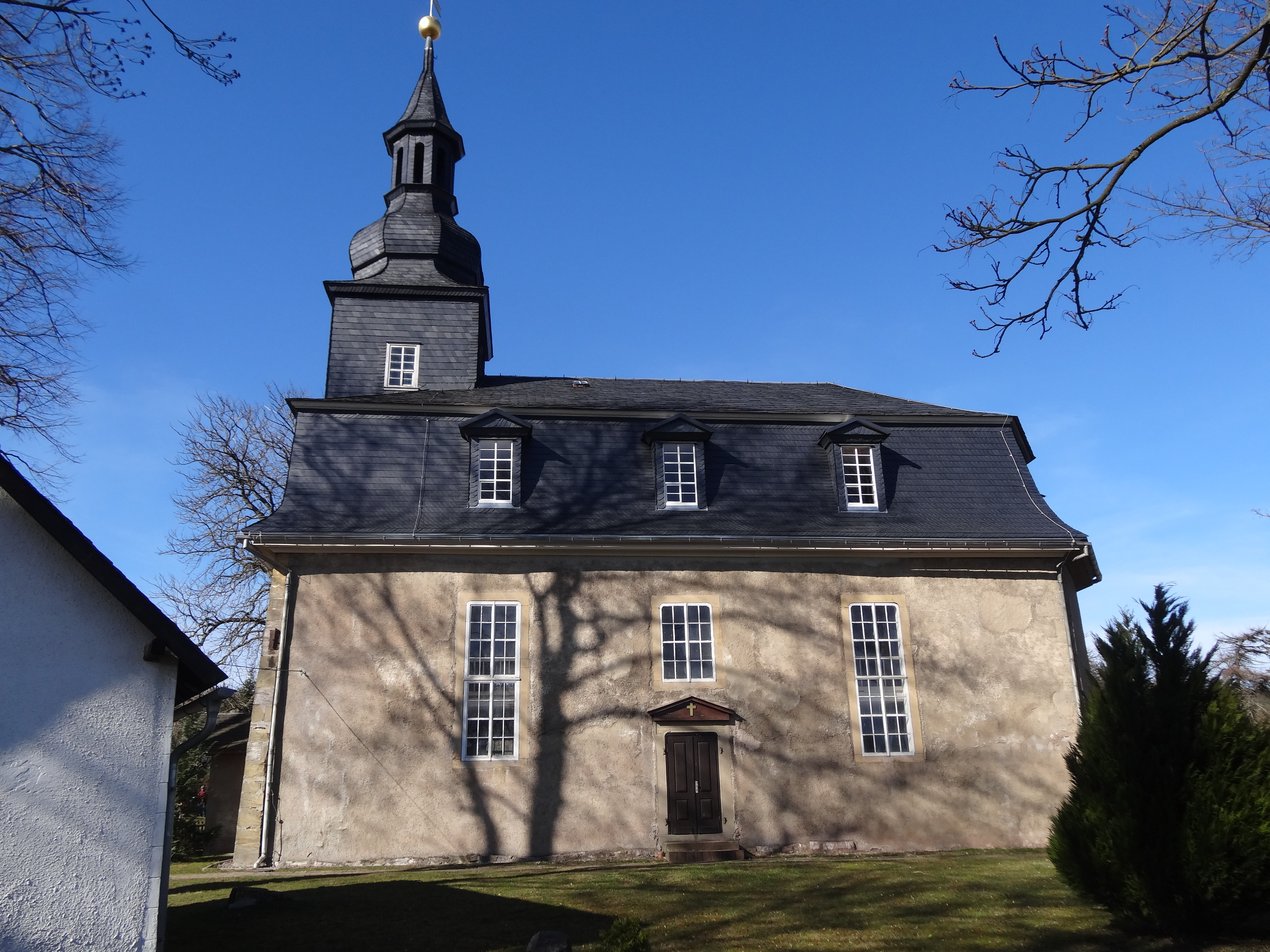 Church of Gillersdorf, Thuringa, Germany